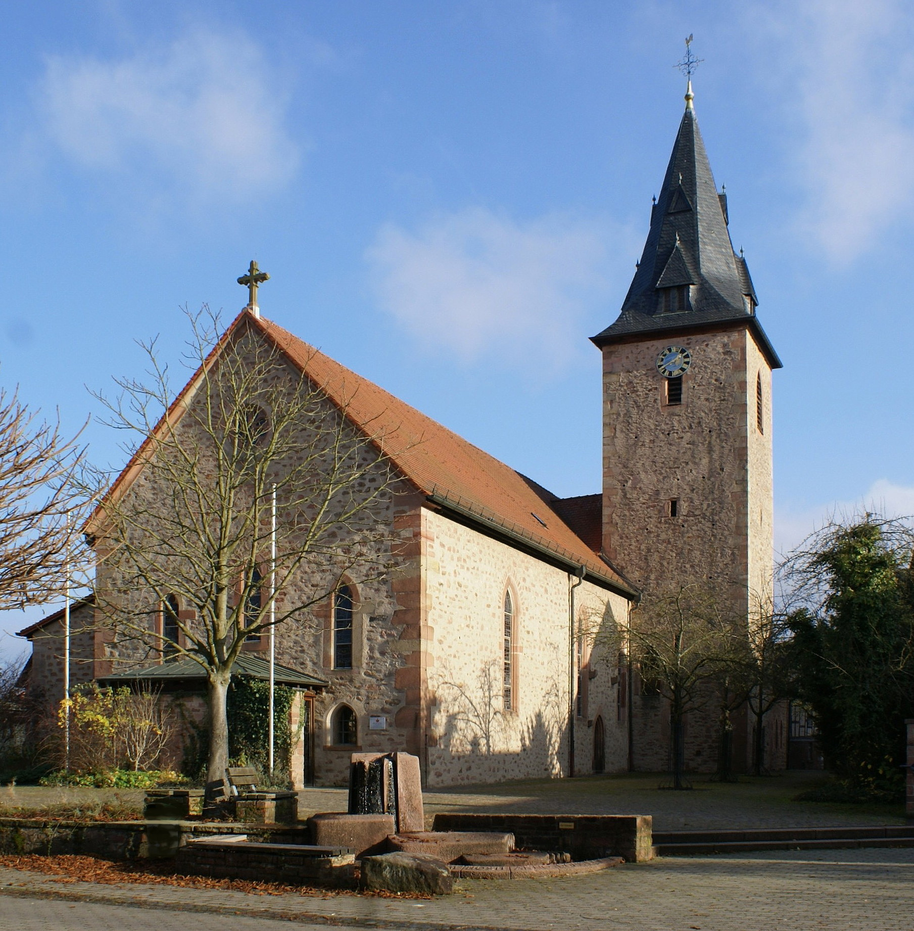 The catholic parish church St. Peter und Paul in Wirtheim